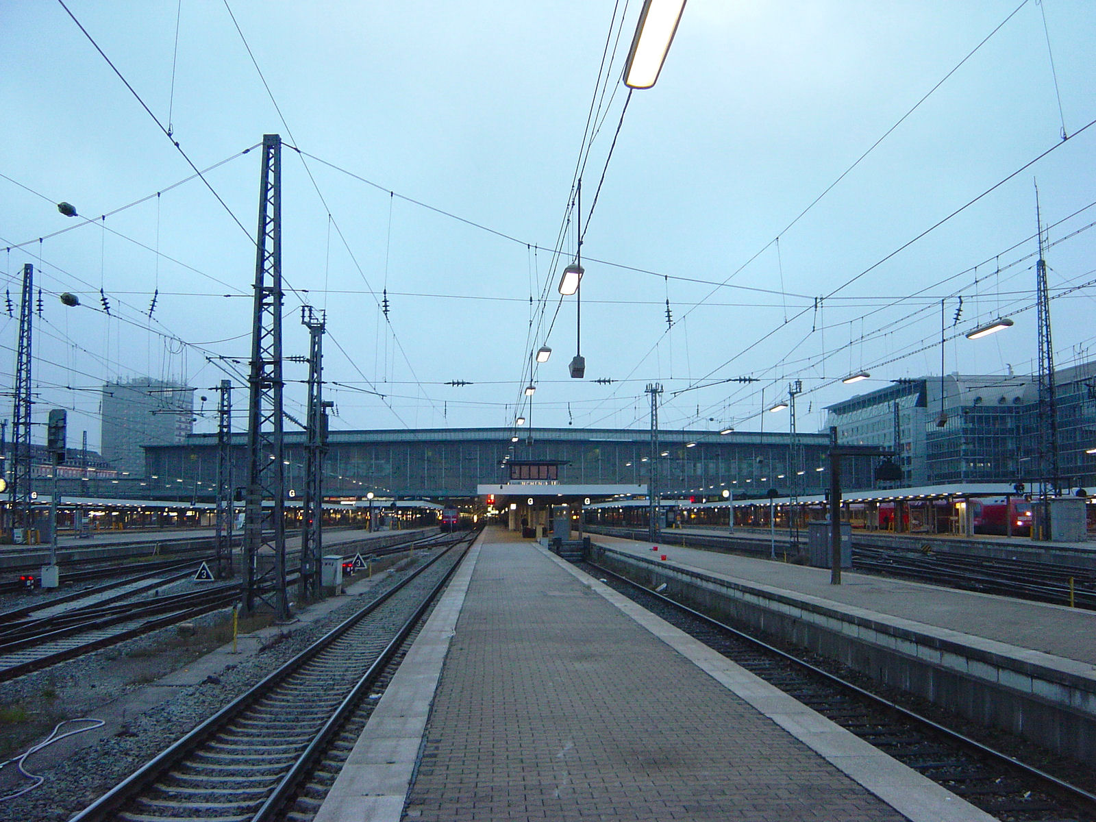 main train station (platforms) in Munich, Germany